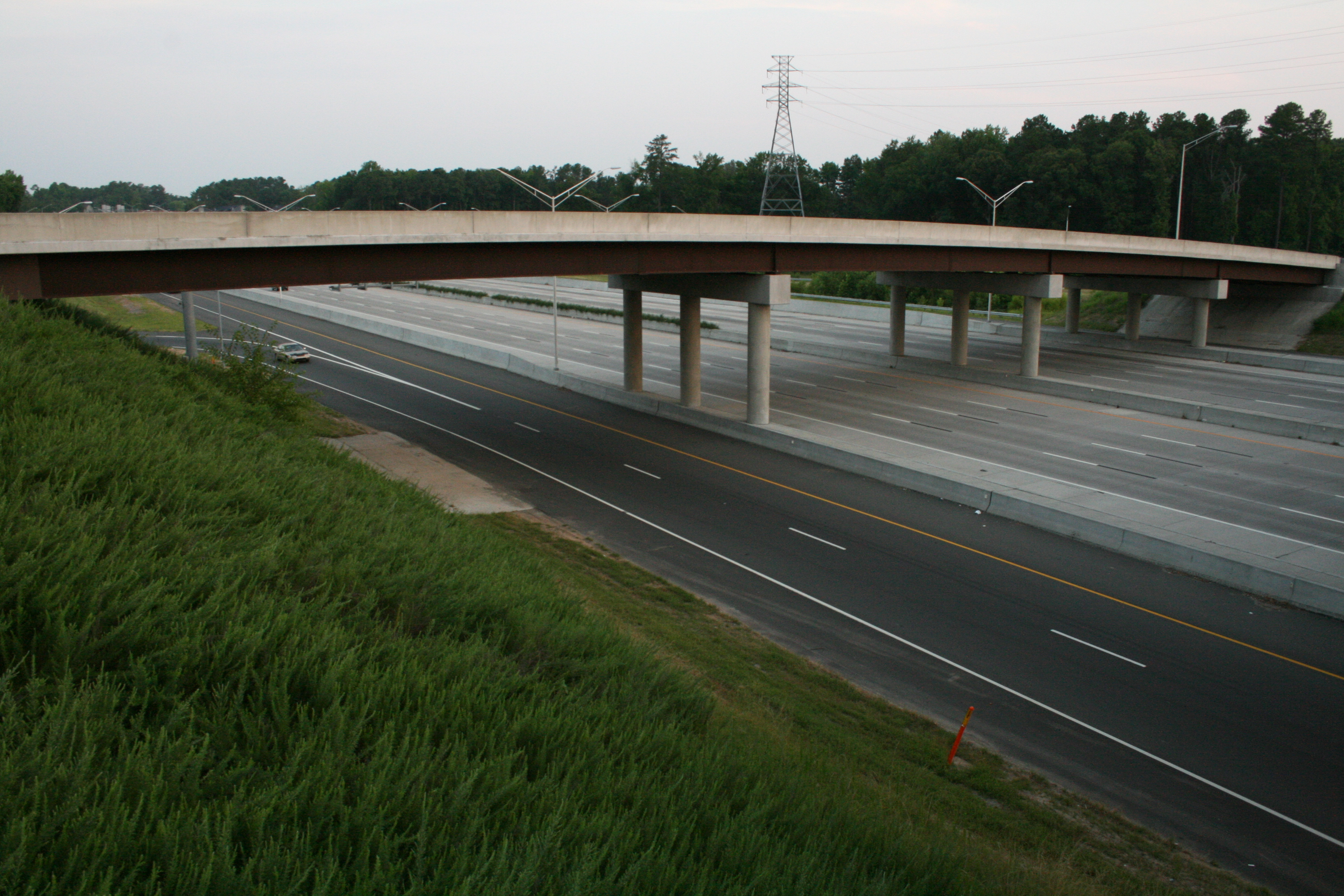 I-85 Gregson St overpass in Durham, North Carolina in the early morning hours. Photograph taken from the Duke St overpass.